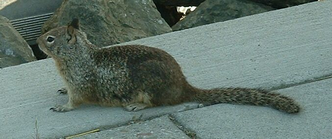 California Ground Squirrel. Cropped from a photograph taken on 1st May 2004 at the marina in Berkeley, California, by Stephen Lea.